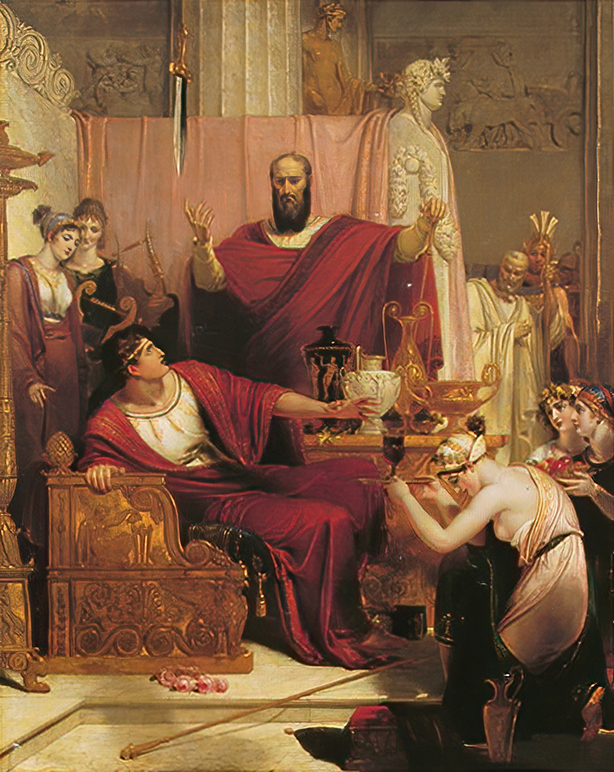 Richard Westall, The Sword of Damocles, (British) 1812, Ackland Art Museum